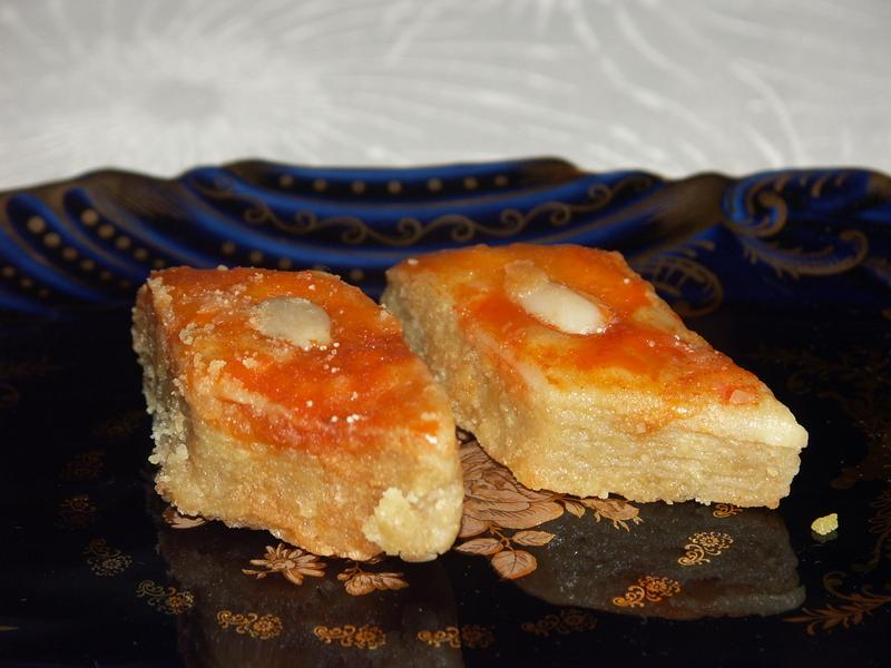 Azerbaijani pakhlava from Ganja, the city in Azerbaijan.